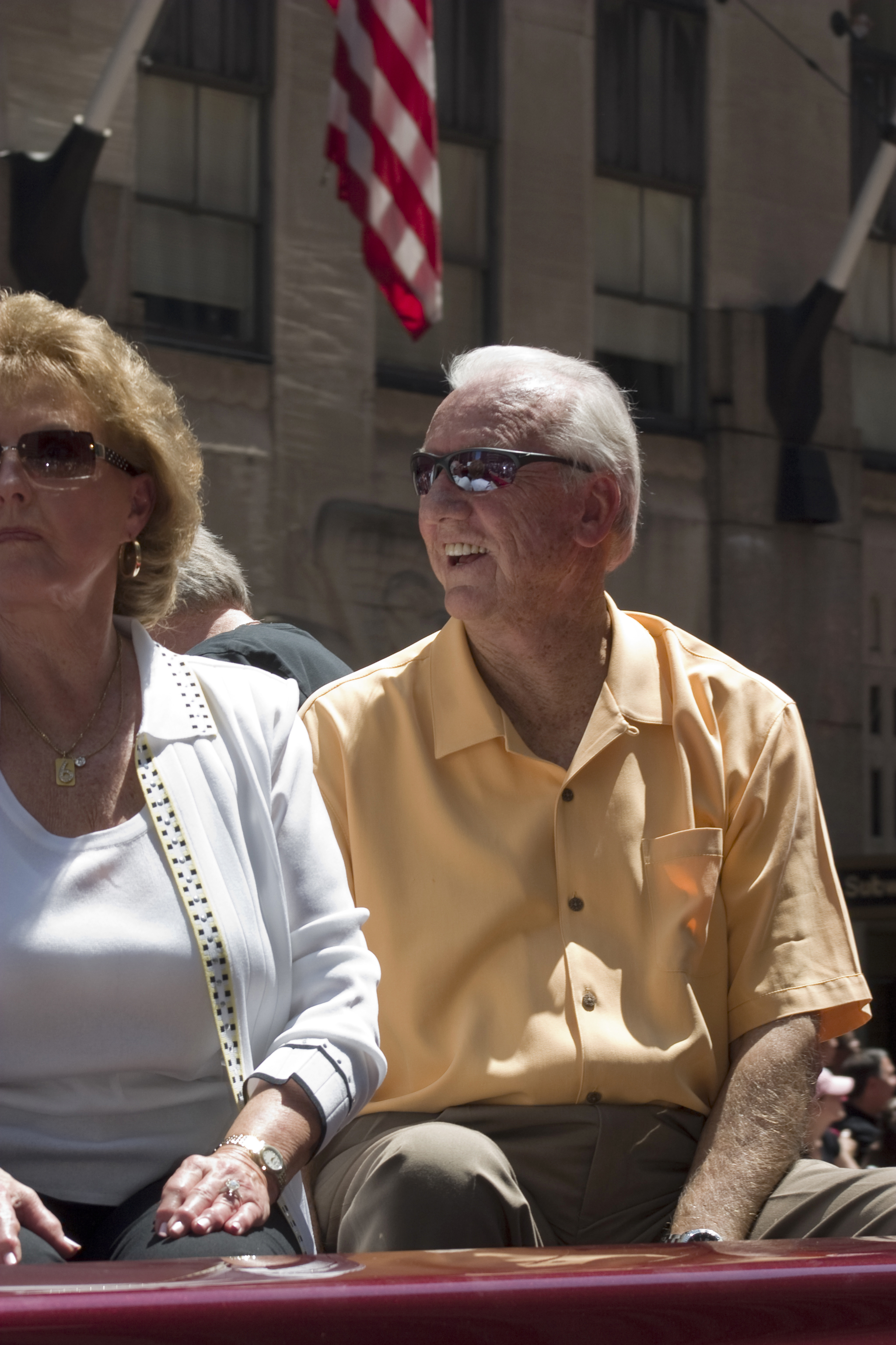 Baseball player Al Kaline. © Rubenstein, photographer Martyna Borkowski